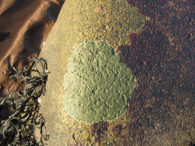 A lichen - Verrucaria mucosa (The title refers to the green lichen in the centre of the image.) This is a species that is found on well-lit rocks on the beach; specifically, it is found in the lower reaches of the beach, in the so-called "black zone" (on which, see 1054120, where another species of the same genus is illustrated). The specimen here is fairly dry, having been above water for several hours. Its surface lacks the fine cracks that are a feature of V. maura, and, as is clear from this photograph, it has a quite different colour (V. maura is black). This specimen also displays the usual white prothallus (this is an area at the margin of the lichen which lacks algal cells). As well as the larger dark pits that are evident on its surface, an examination of the lichen through a hand-lens revealed some details that are not evident in the photograph: in particular, the surface of the lichen could be seen to be covered with a pattern of closely-spaced tiny pale dots. Compare some similar specimens at the Irish Lichens website, where further information on this species can be found